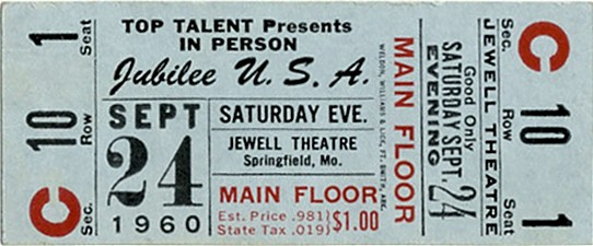 Ticket to the final performance of Jubilee USA